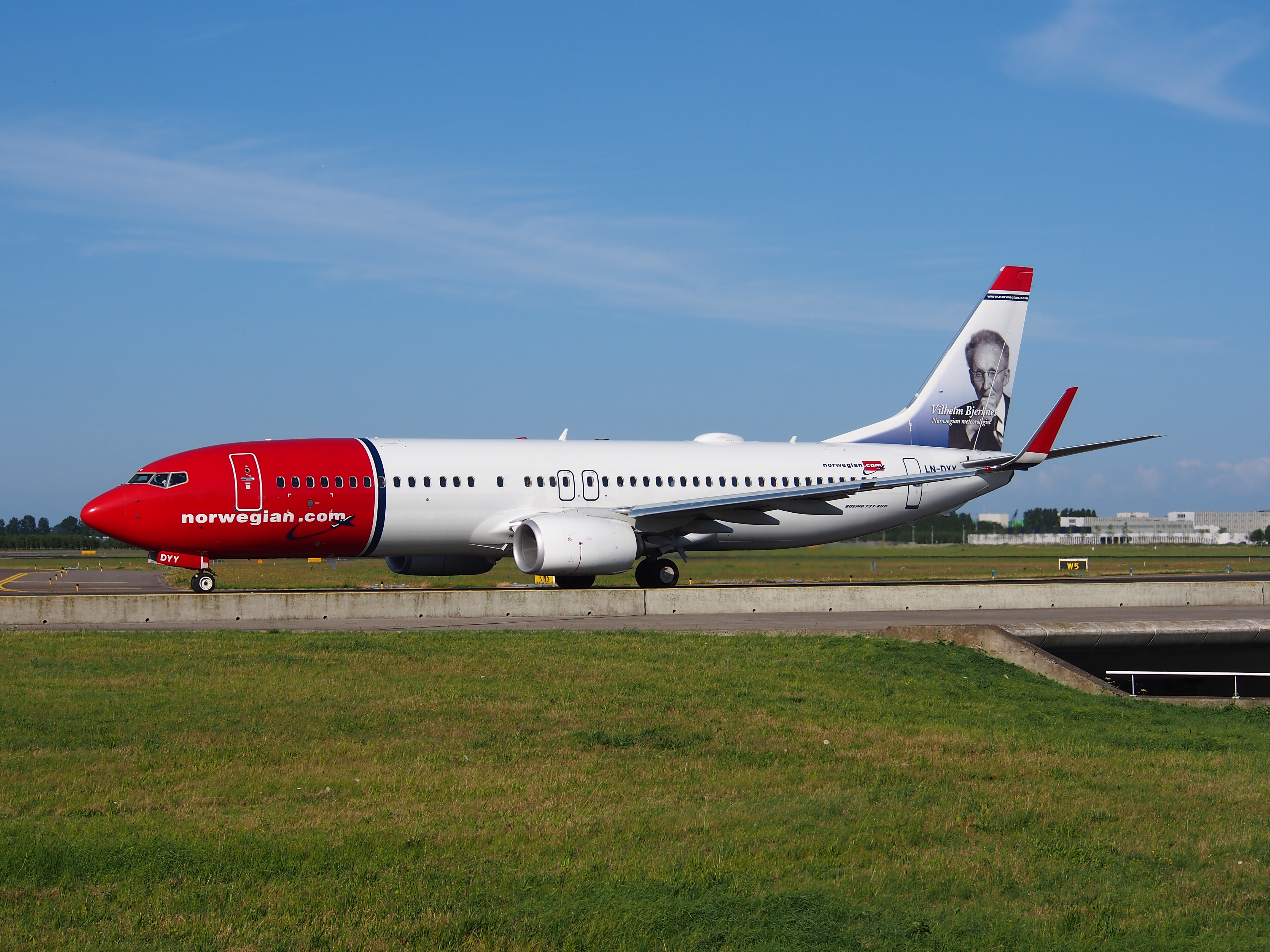 Photographed at Schiphol, Amsterdam airport, (IATA: AMS, ICAO: EHAM), the Netherlands.